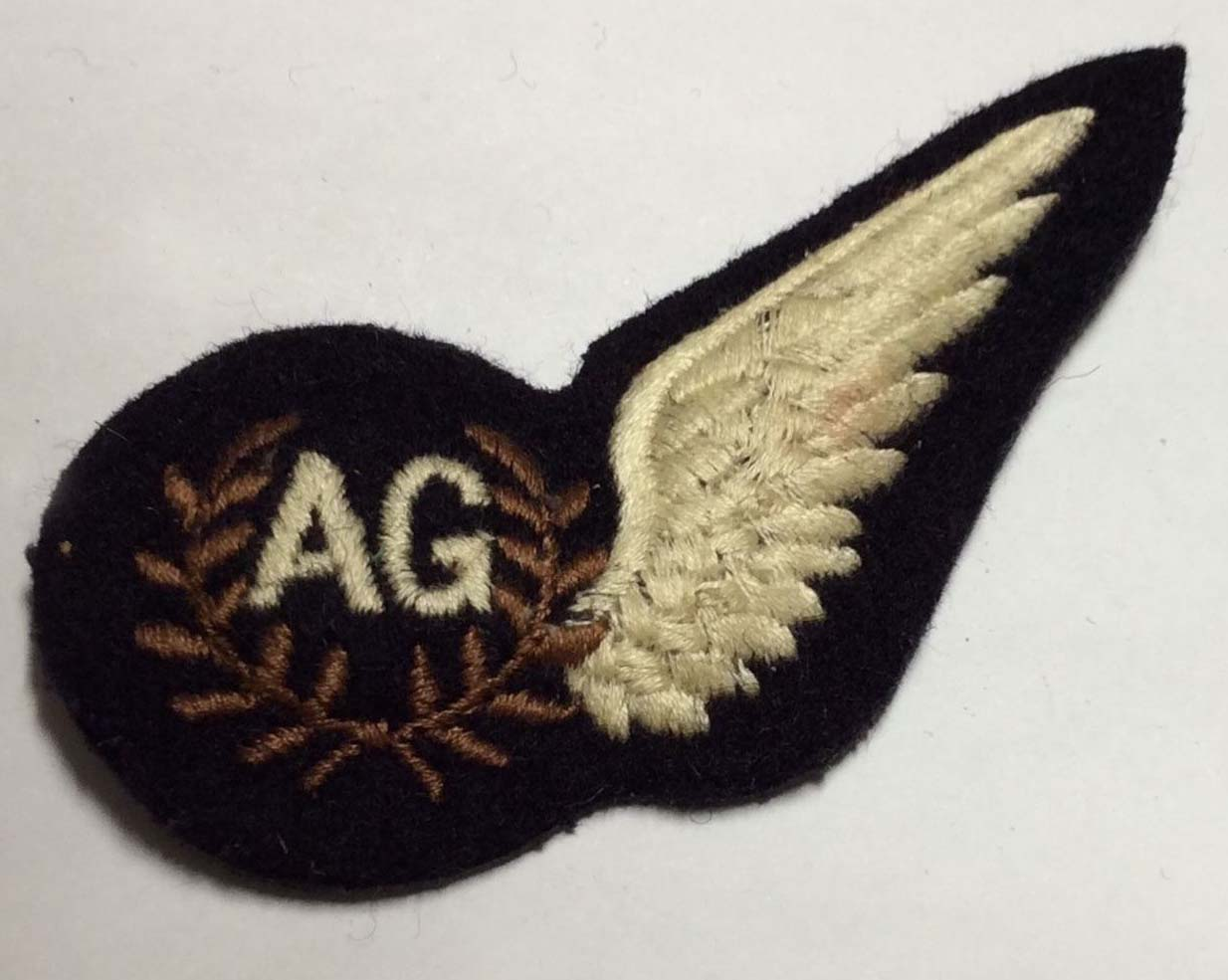 AG Wing WW2